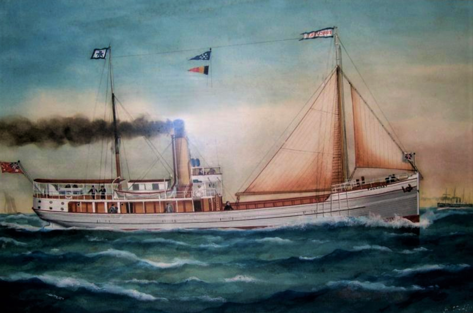 painting of the Tuncurry 2, by Alfred William Dufty 1858-1924. Image e-mailed with permissions by a descendant of John Wright, (Black Diamond Images)